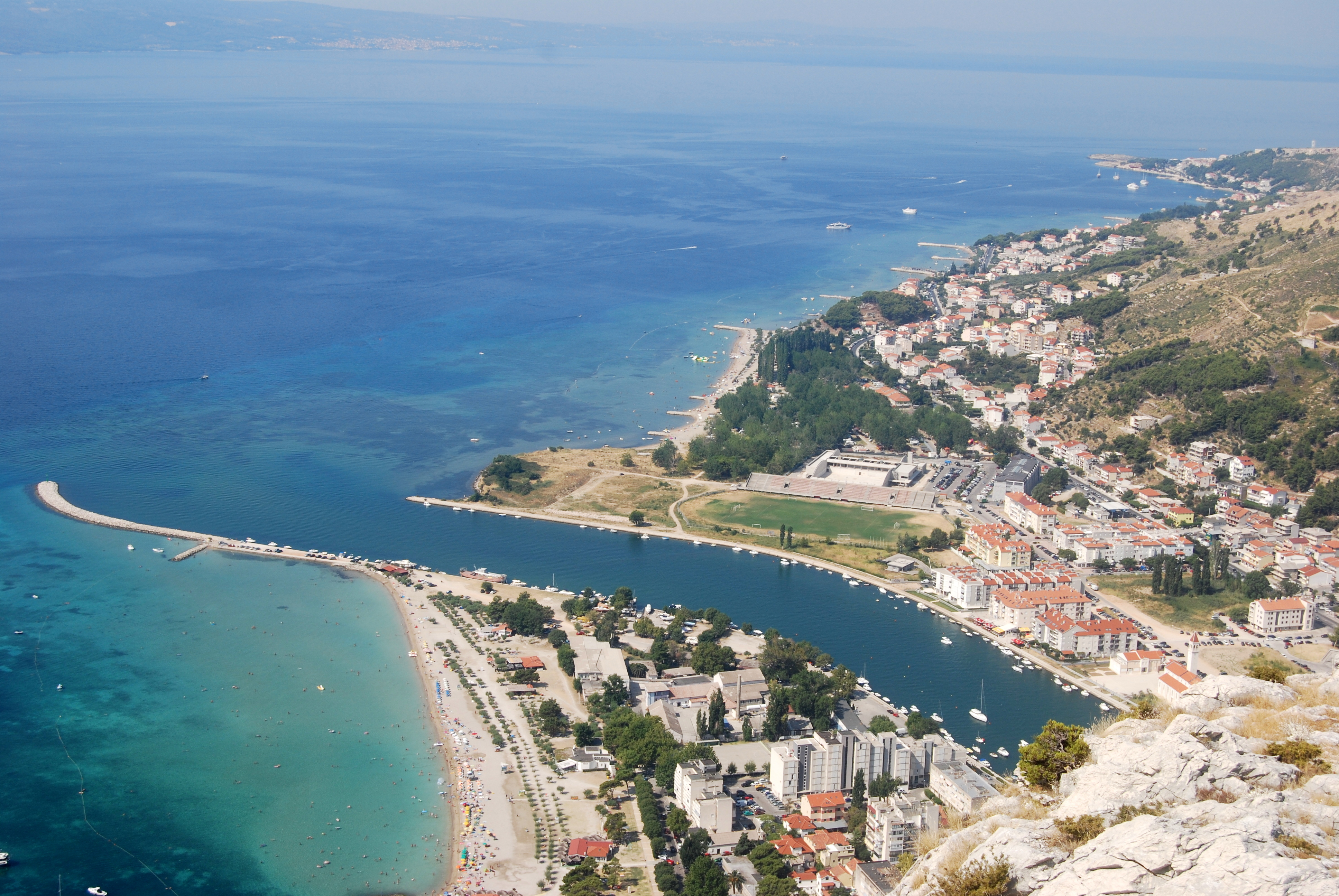 Omis, Cetina